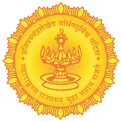 The official seal of Maharashtra, India.